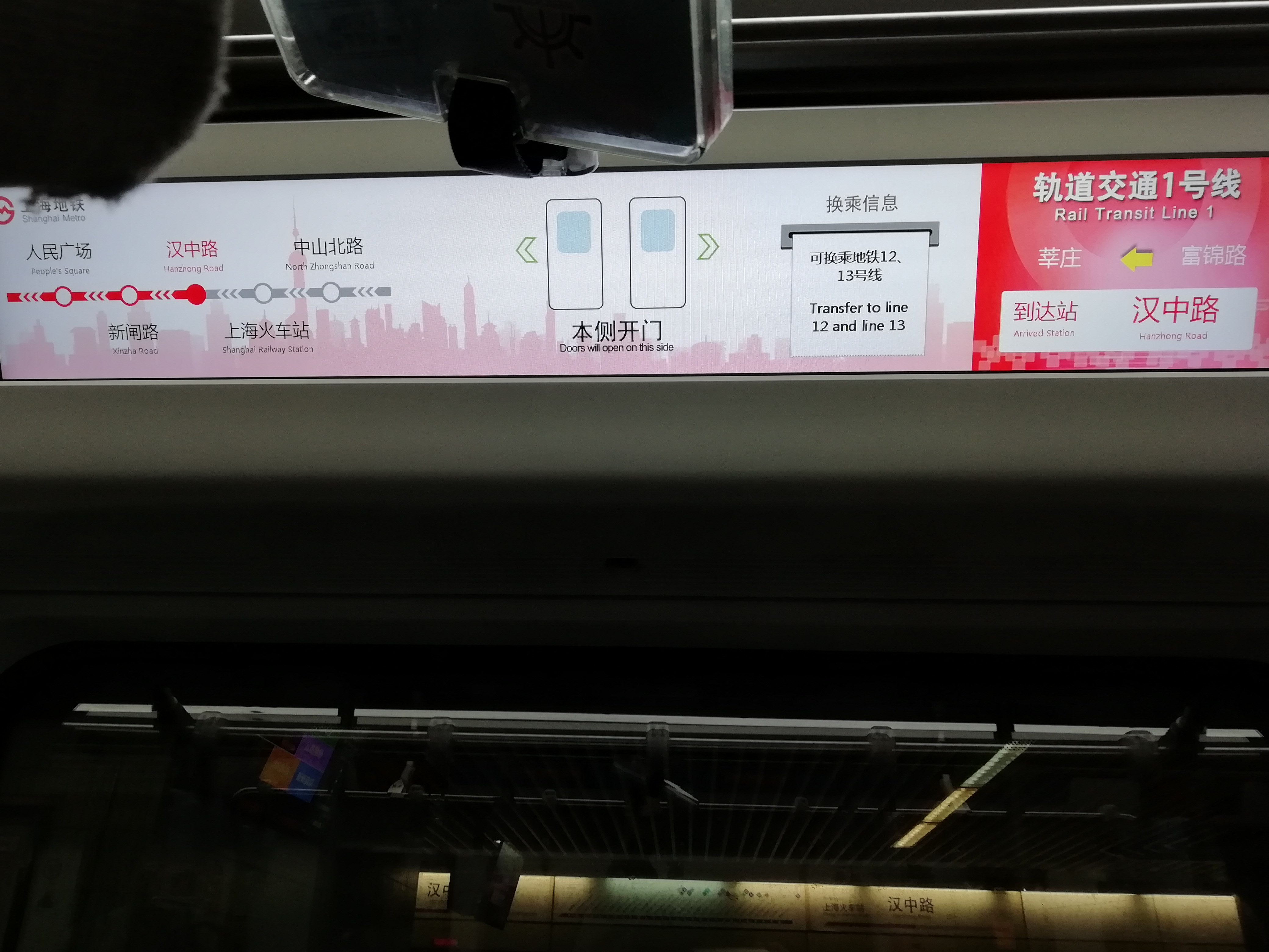 Electronic Route Map of Shanghai Metro 01A06, which shows info about the next station and interchanges.